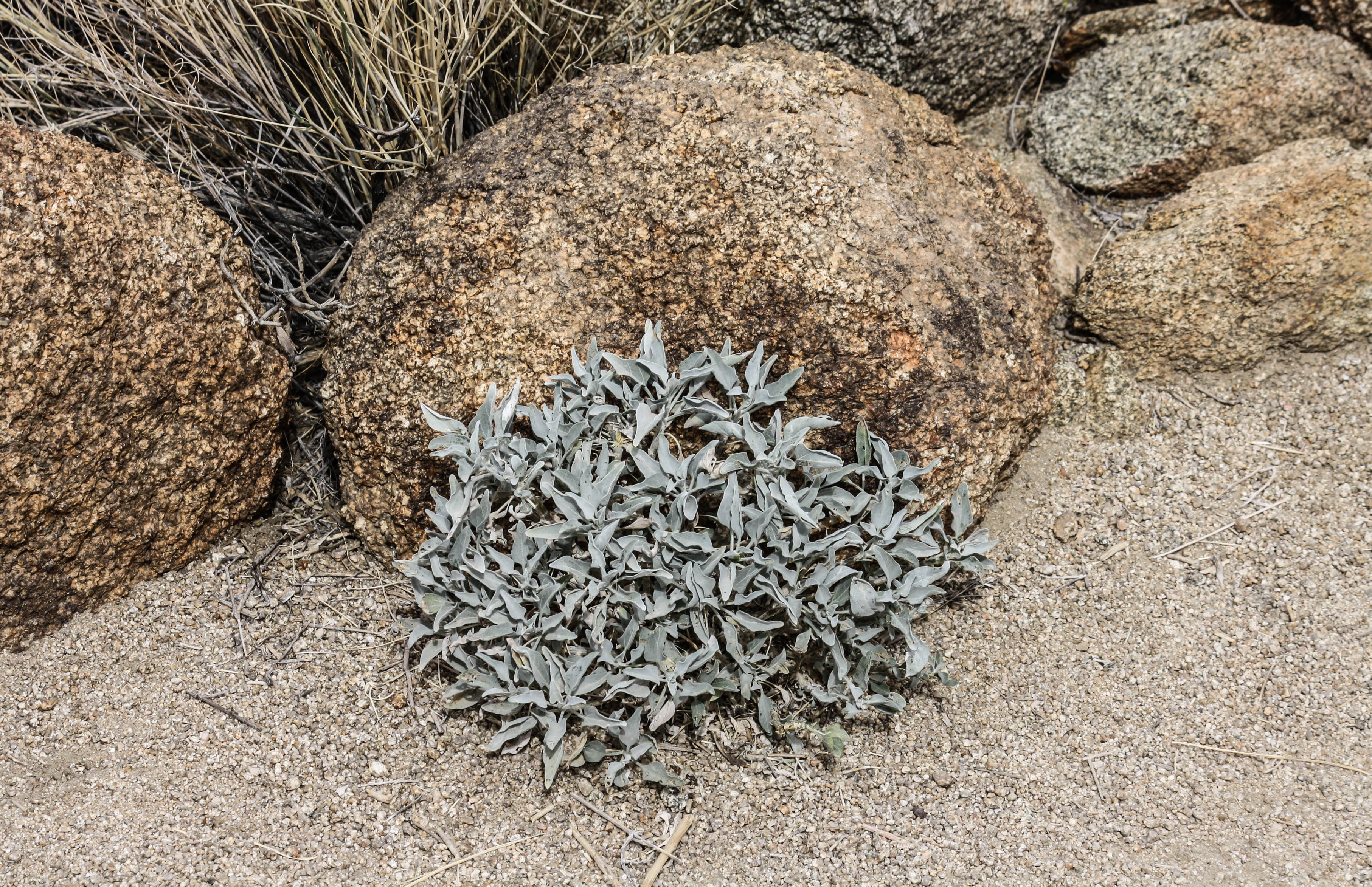 Brittebush (Encelia farinosa) on the Fortynine Palms Oasis Trail in Joshua Tree National Park, California